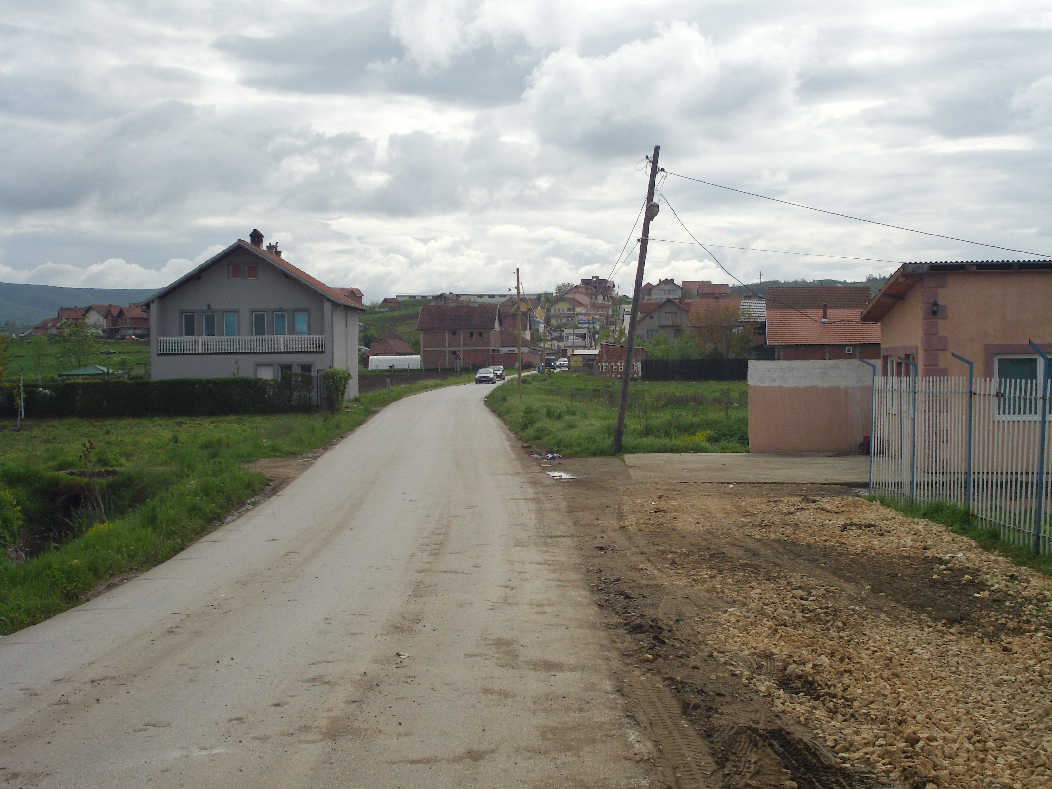 Vrnica village in Kosovo, as seen from a rail crossing.